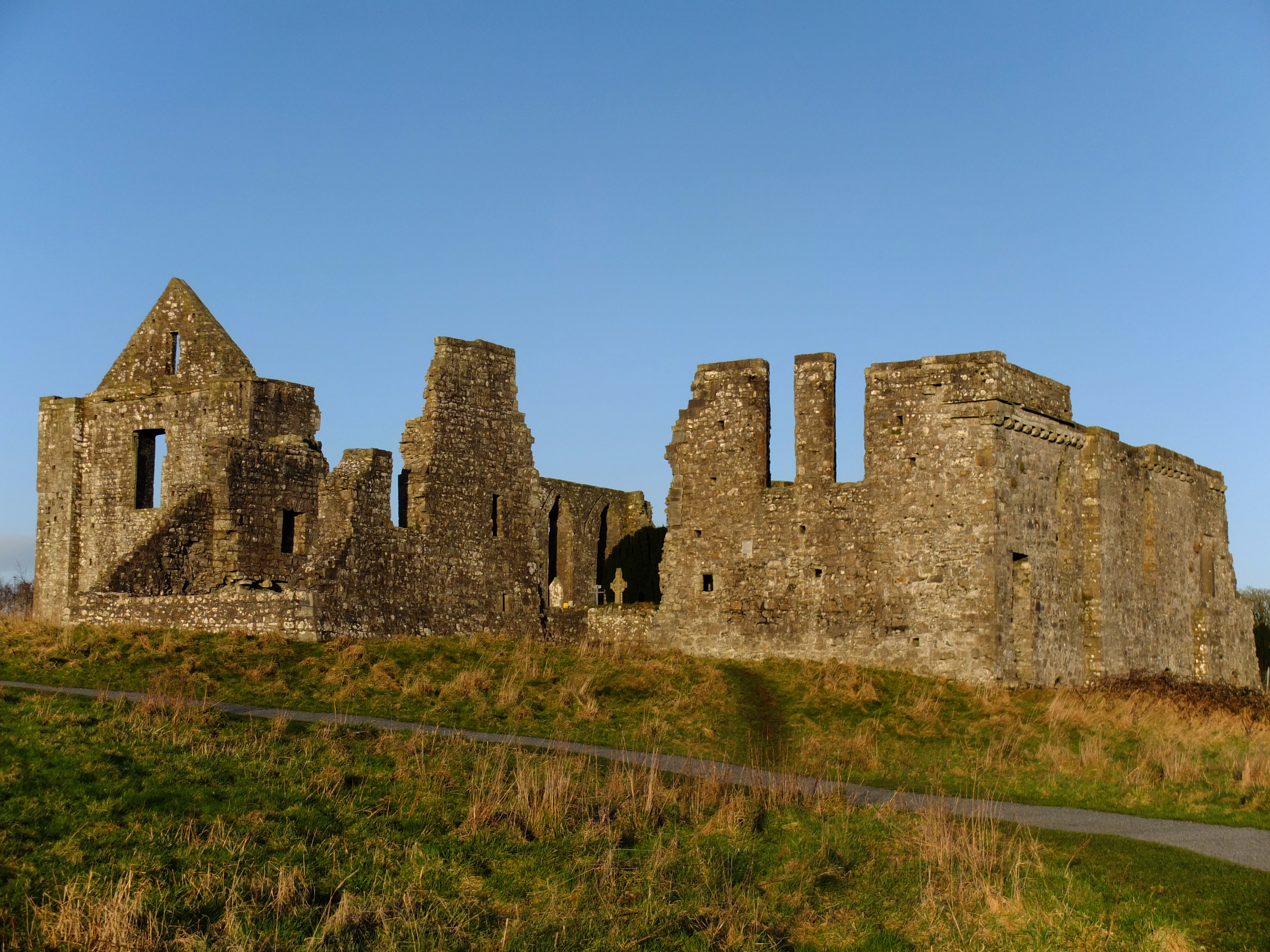 Newtown Trim Cathedral